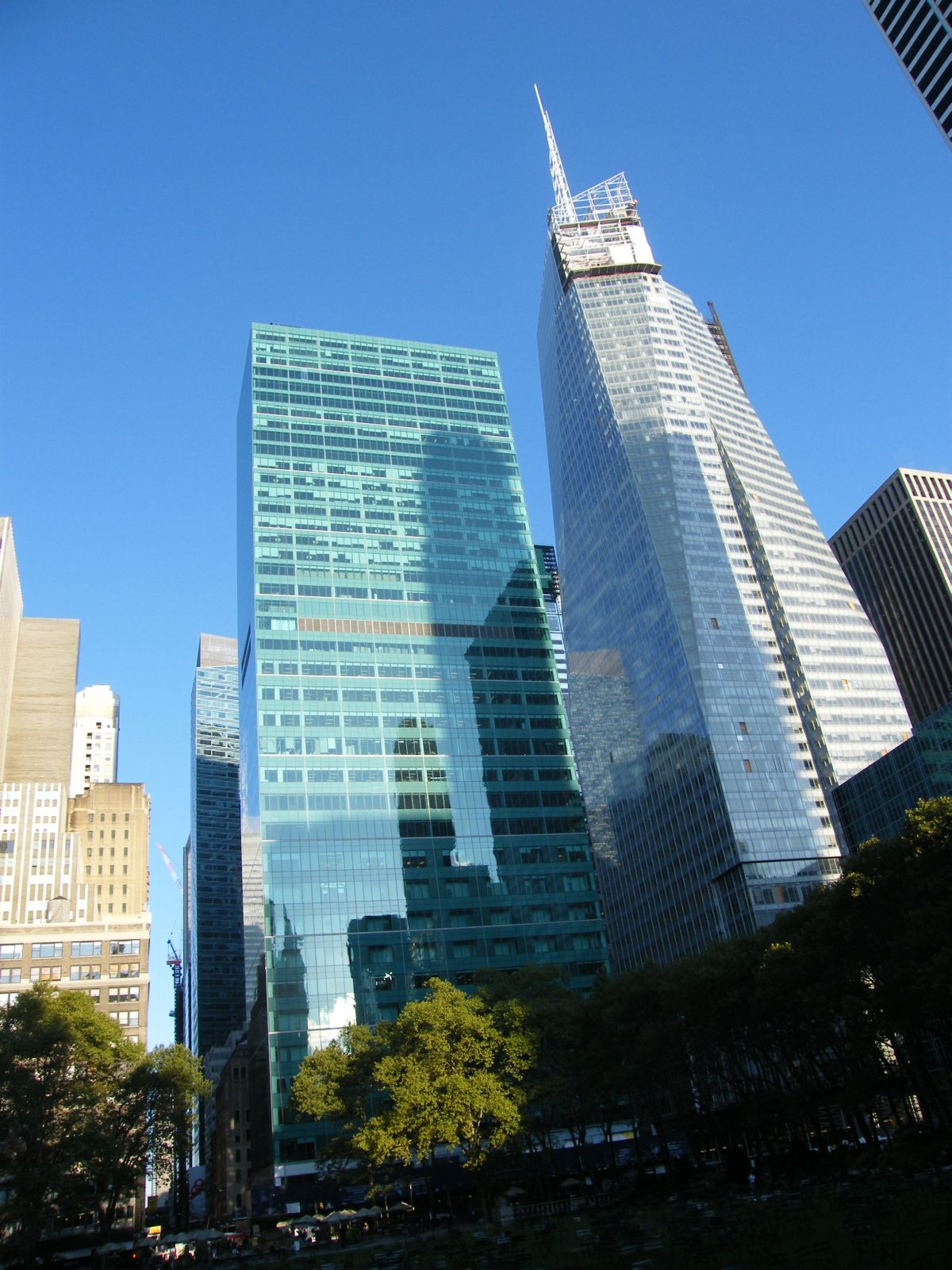 1095 Avenue of the Americas